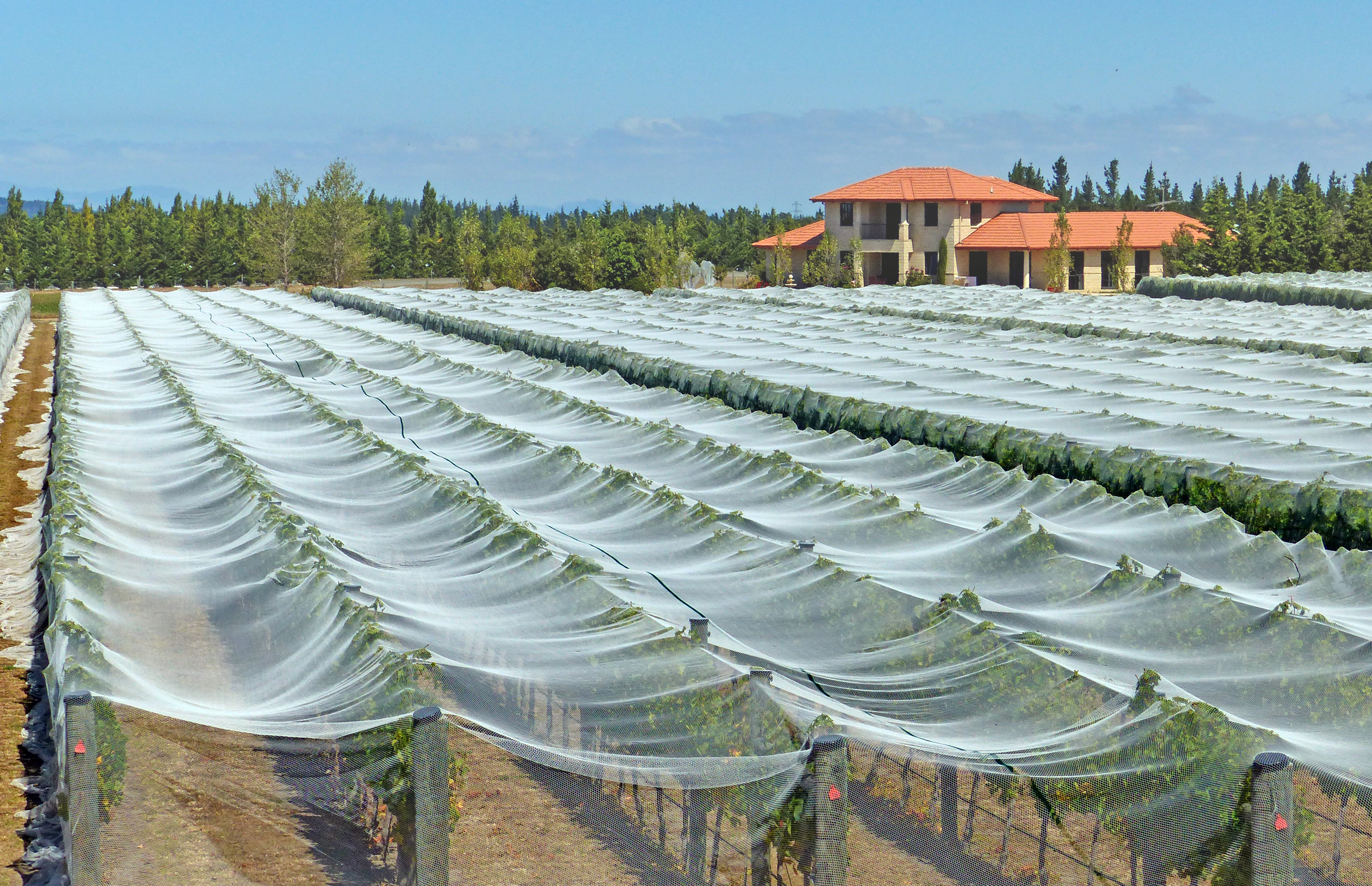 Once veraison (grape ripening) has set in, birds can be one of the biggest risks to your grape crop. Not only do birds eat valuable fruit, but the damage can turn into rot or disease that can spread to the rest of the bunch. Controlling grape-eating birds is an essential part of effective viticulture Bird netting is by far the most common and most effective method of grape protection, and is highly recommended for any vineyard with more than a few vines.